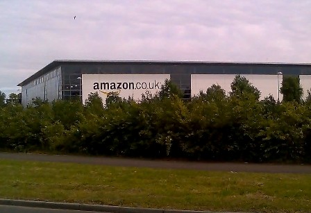 Amazon warehouse in Glenrothes, Fife; source Michael Westwater